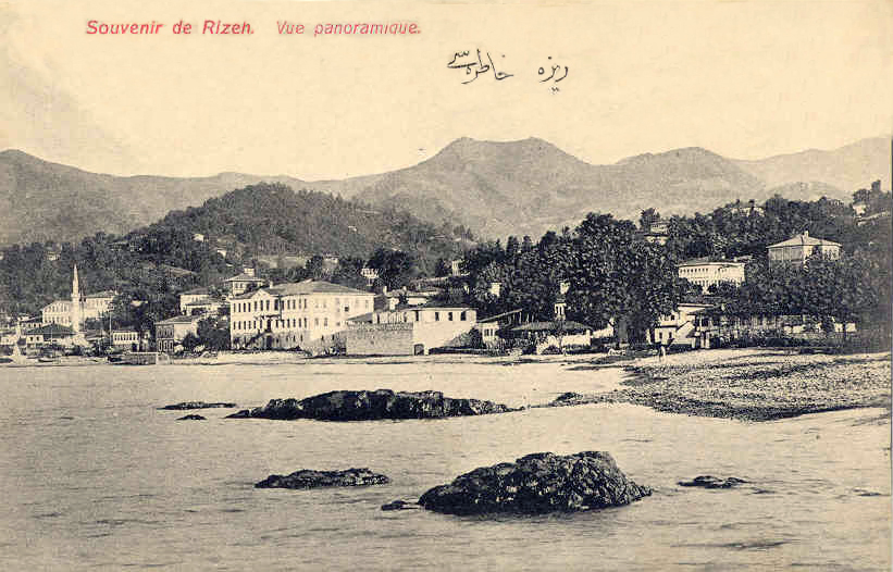 Postcard by Osman Nuri featuring Rize near Trabzon, Turkey.